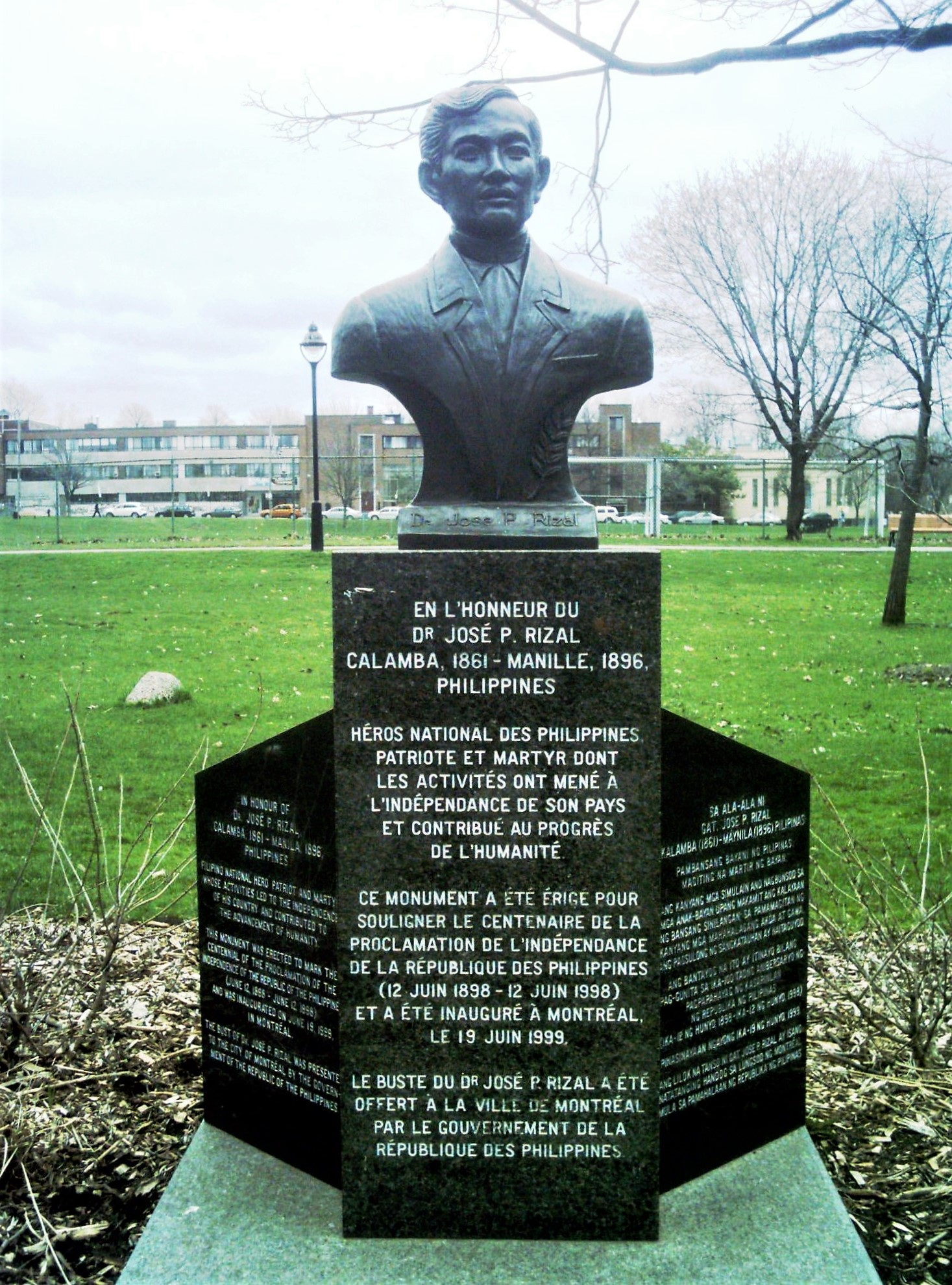 Jose Rizal's monument in Montreal, Quebec, Canada